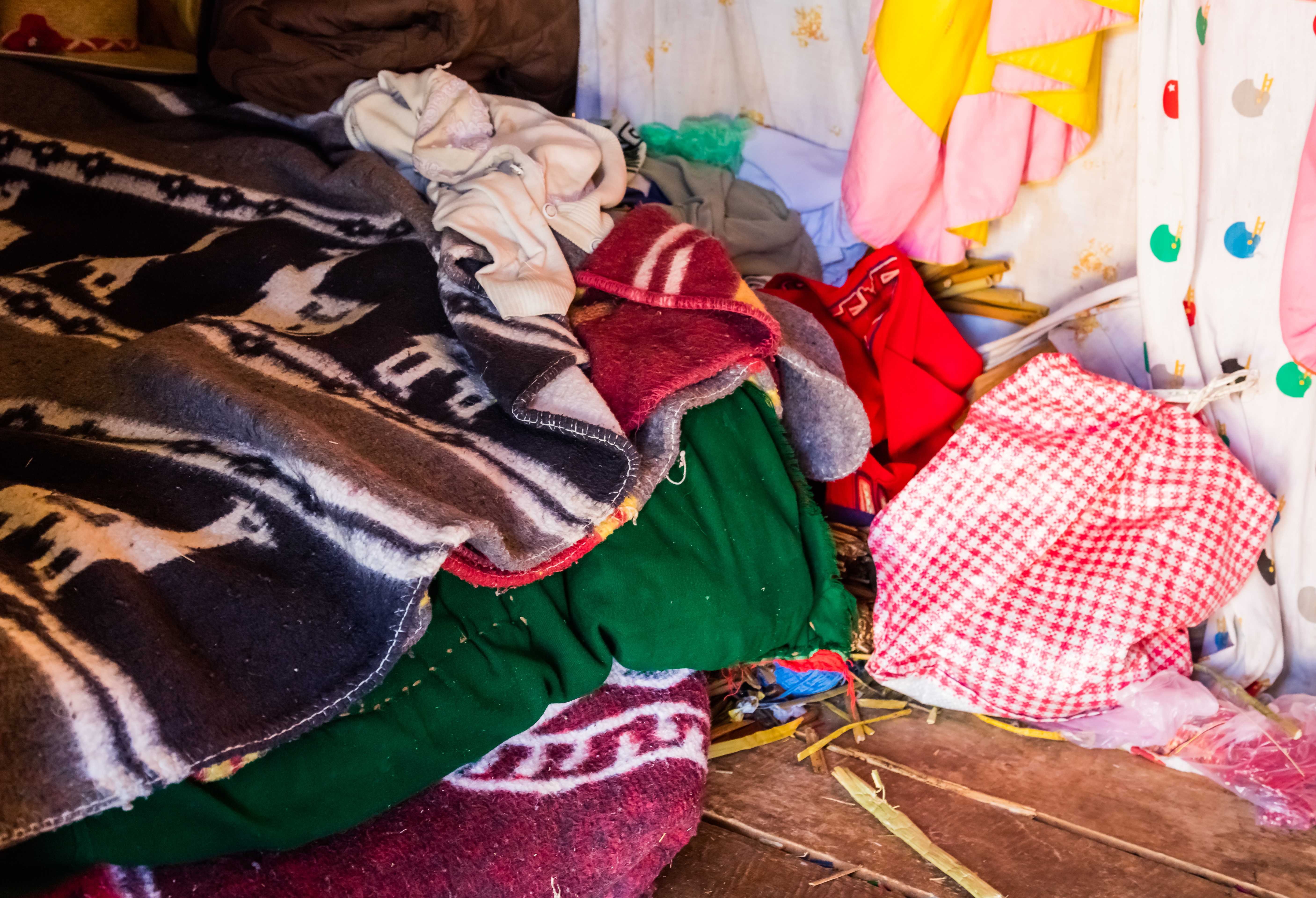 Uros floating islands, Titicaca Lake, Peru